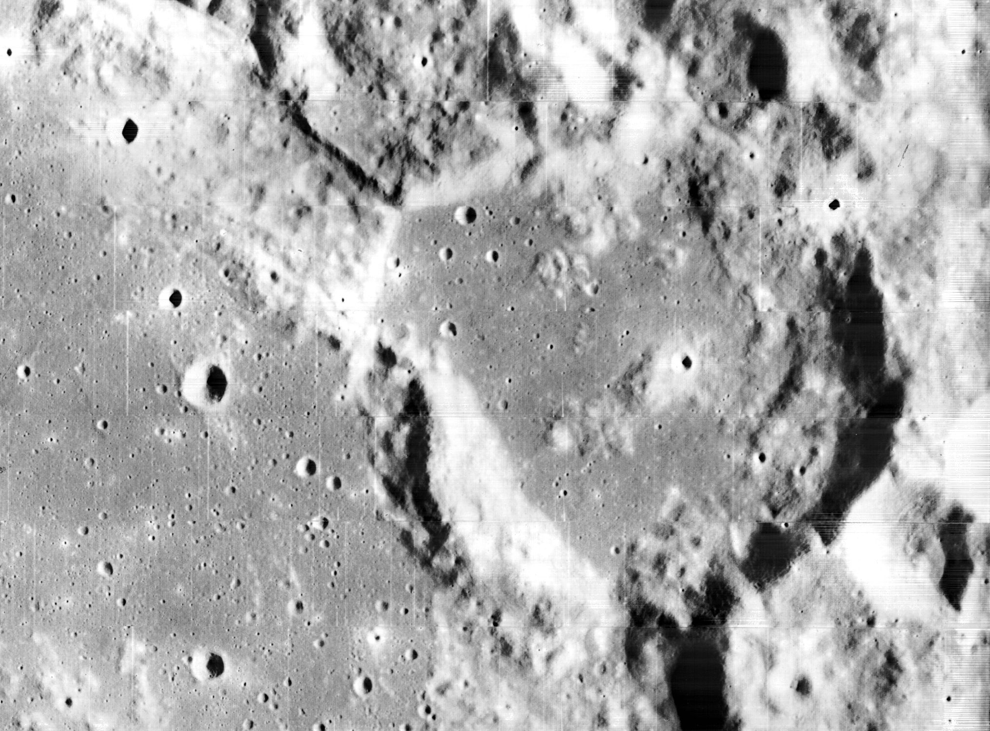 Image of lunar crater Condon with surroundings, taken by Lunar Orbiter 1. The preview image 1034_med.jpg was reduced in size to 50% of normal, then cropped to focus on the crater.